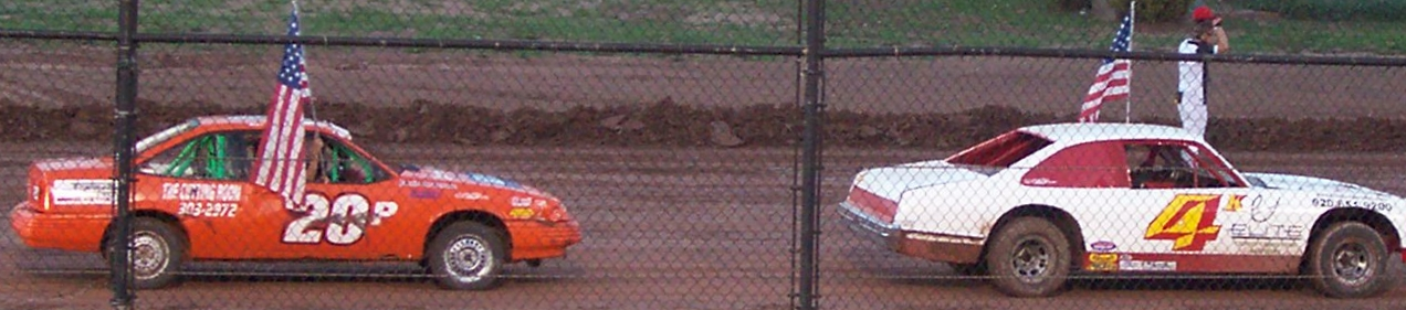 Two modified production racecars. The orange car on the left is a low division 4 cylinder car with its only its interior removed and a roll cage added. The white car on the right is a high local division called Grand National, with few original parts used except in some engine parts, frame, and wheel assemblies remaining. Taken at the Fall Classic at Sunnyview Expo in Oshkosh, Wisconsin, USA on September 15, 2006.